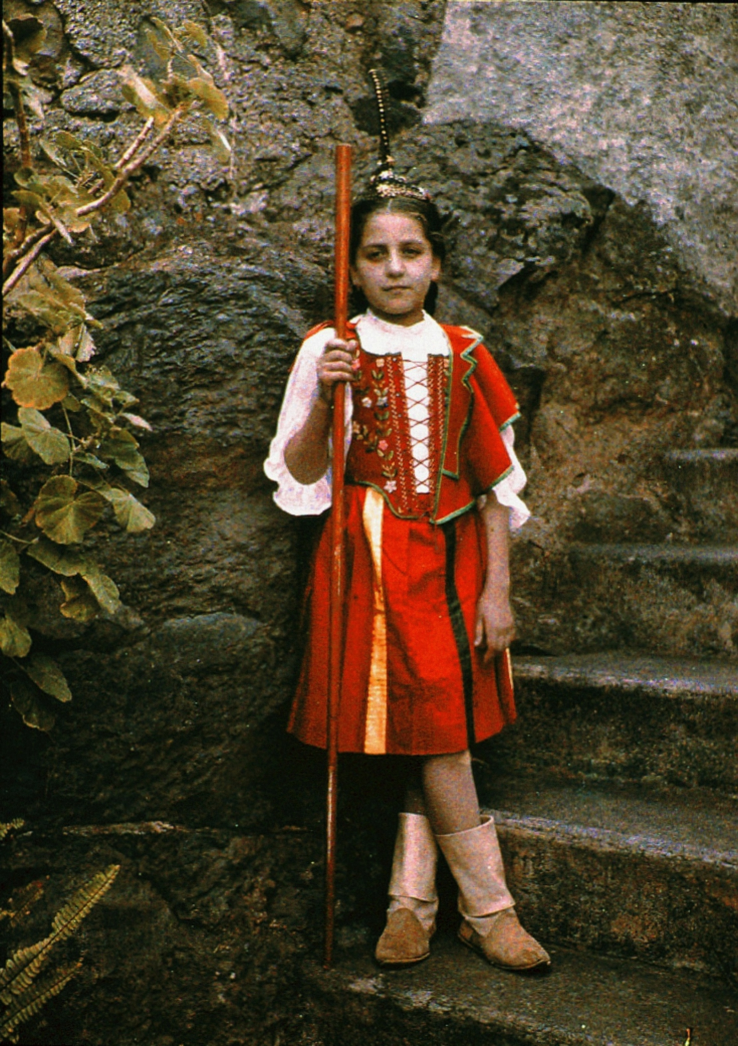 Colour Photograph (Autochrome) of a Girl in Traditional Costume, Taken in Madeira, by Sarah Angelina Acland, c.1910